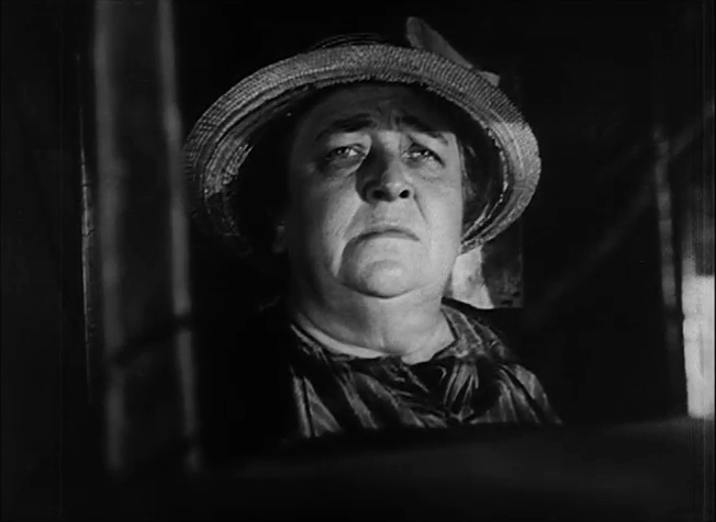 Trailer for the 1940 black and white film The Grapes of Wrath. Jane Darwell as Ma Joad.